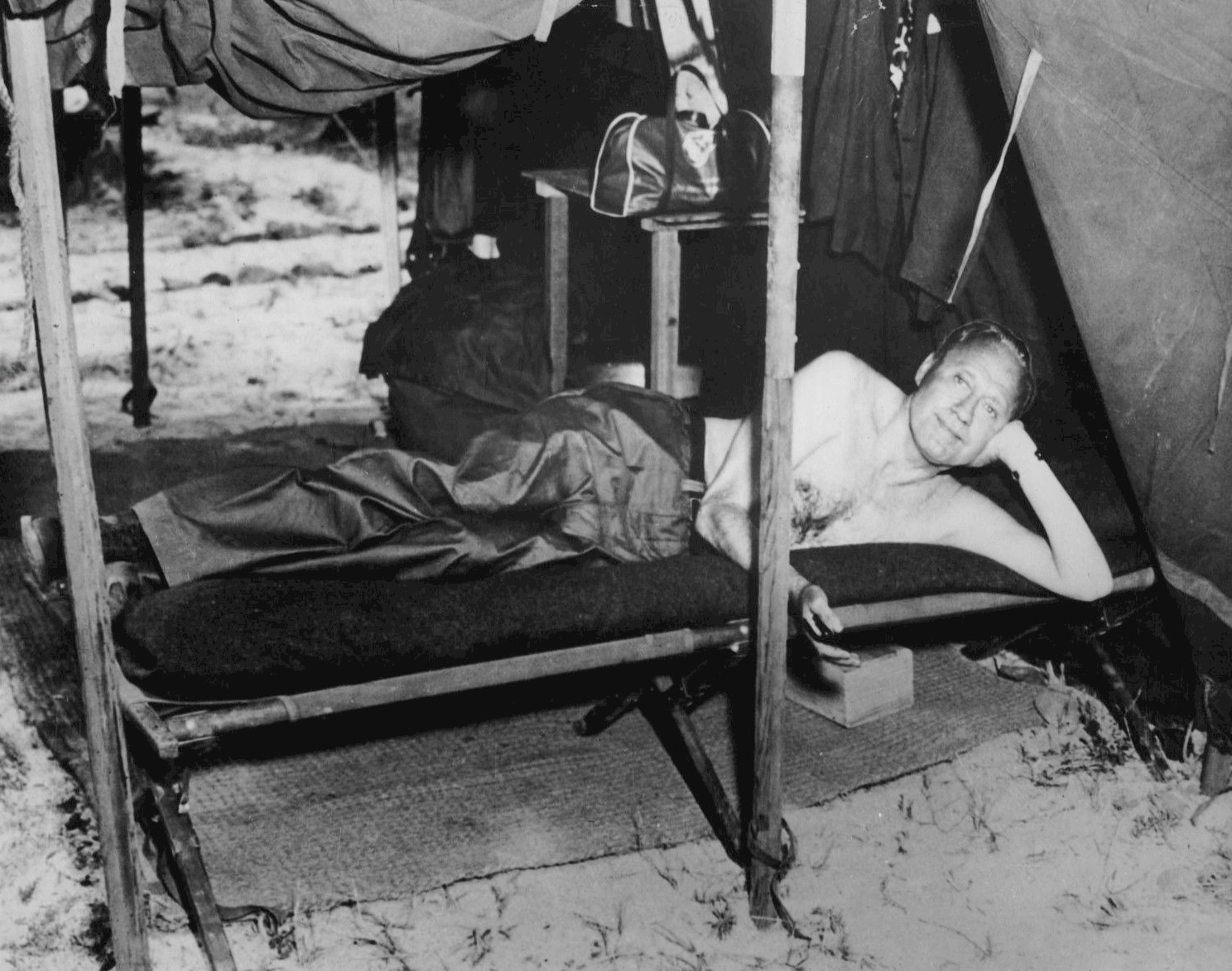 Photo of Jack Benny relaxing in his tent at a US military base in Korea. Benny was part of a USO tour entertaining the troops. He returned to his US radio program in September, 1951.